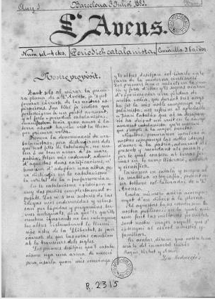 Heading of the first publication of the magazine L'Avens in 1881